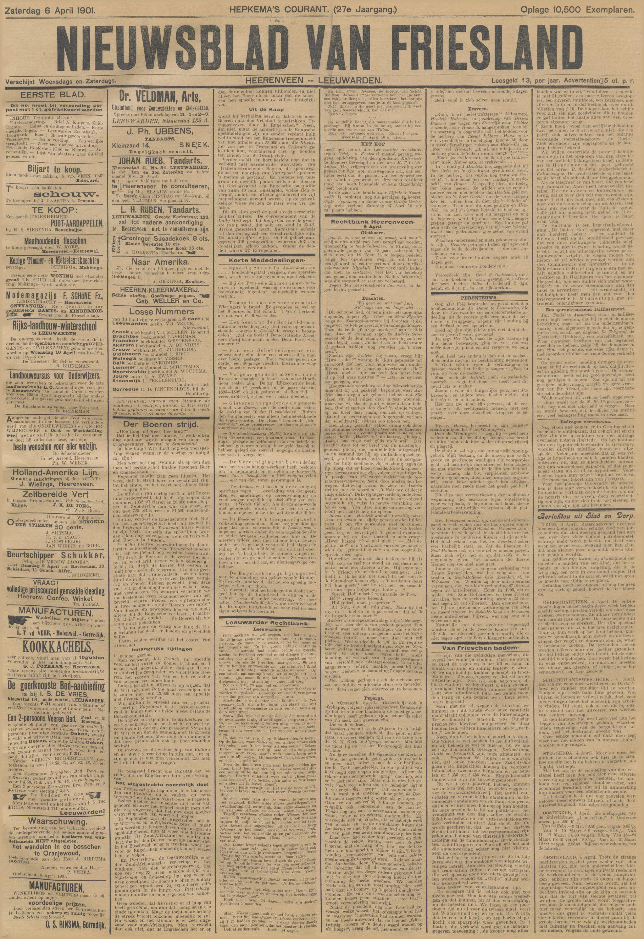 Front page of Nieuwsblad van Friesland : Hepkema's courant 06-04-1901